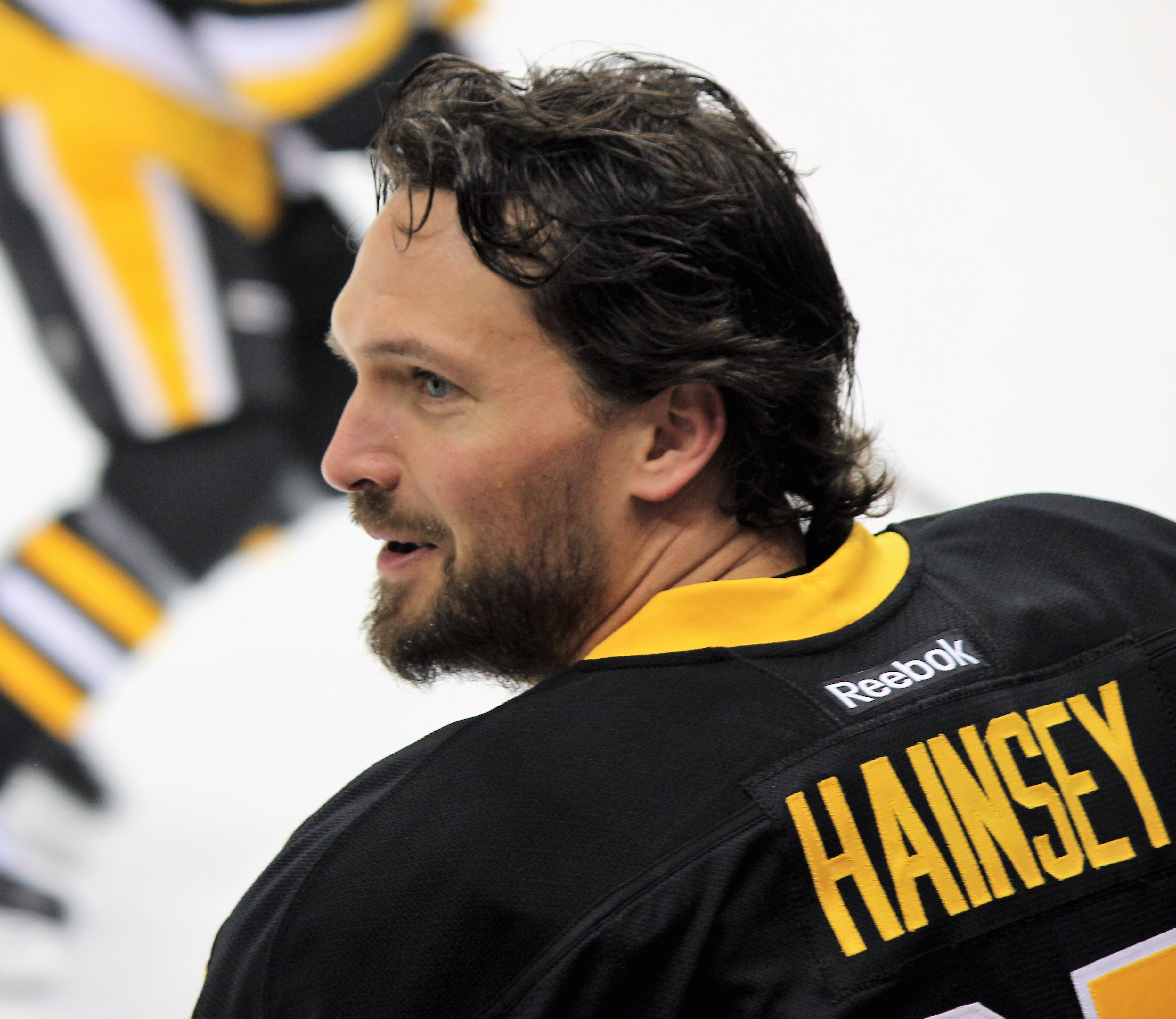 Pittsburgh Penguins defenseman Ron Hainsey warms up prior to game 5 of the Eastern Conference final against the Ottawa Senators, May 25, 2017, at PPG Paints Arena in Pittsburgh, PA.